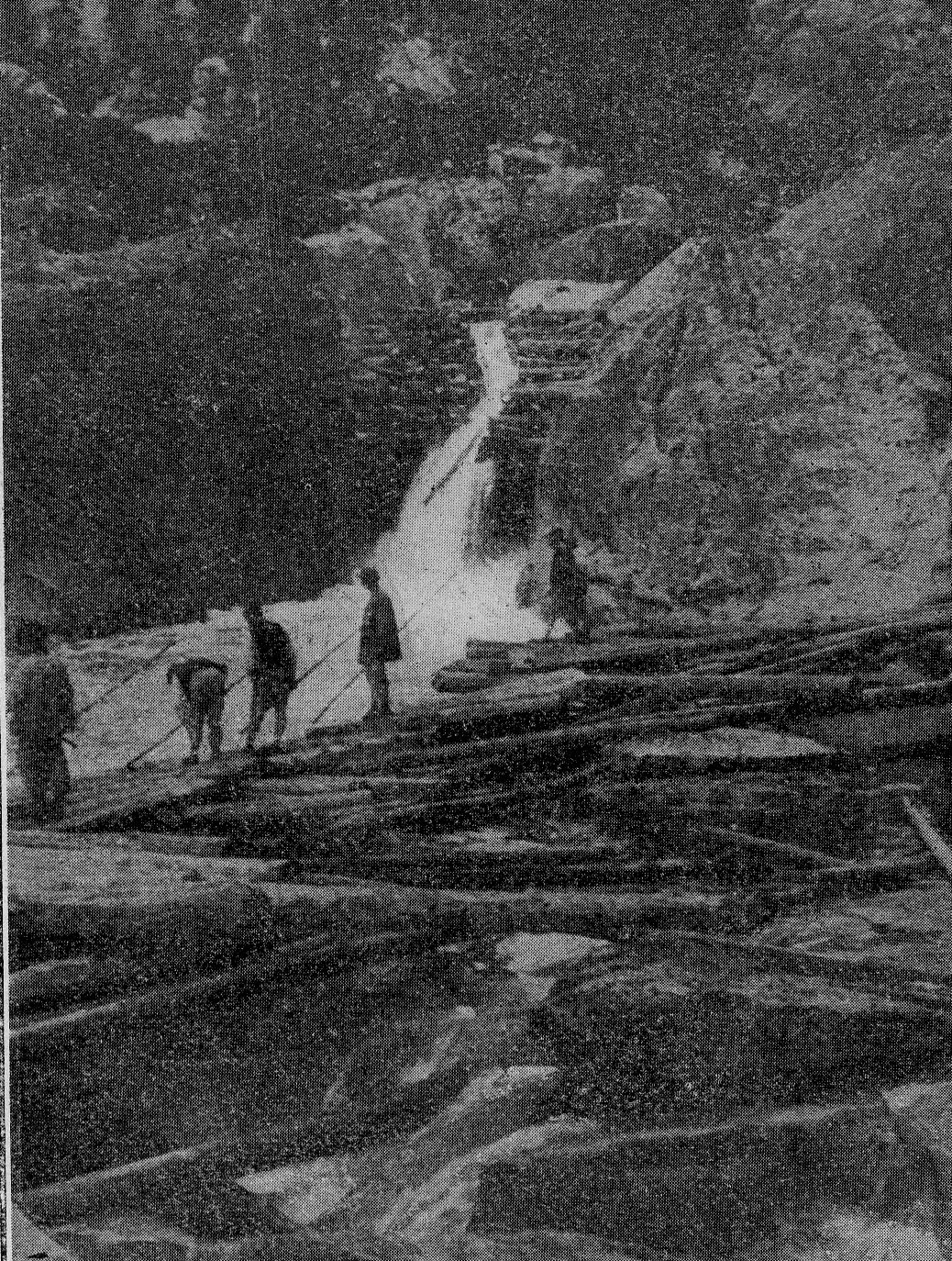 Gancheros, cauce artificial entre las peñas.